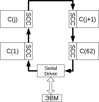 Physical topology of crates connection in Serial CAMAC standard